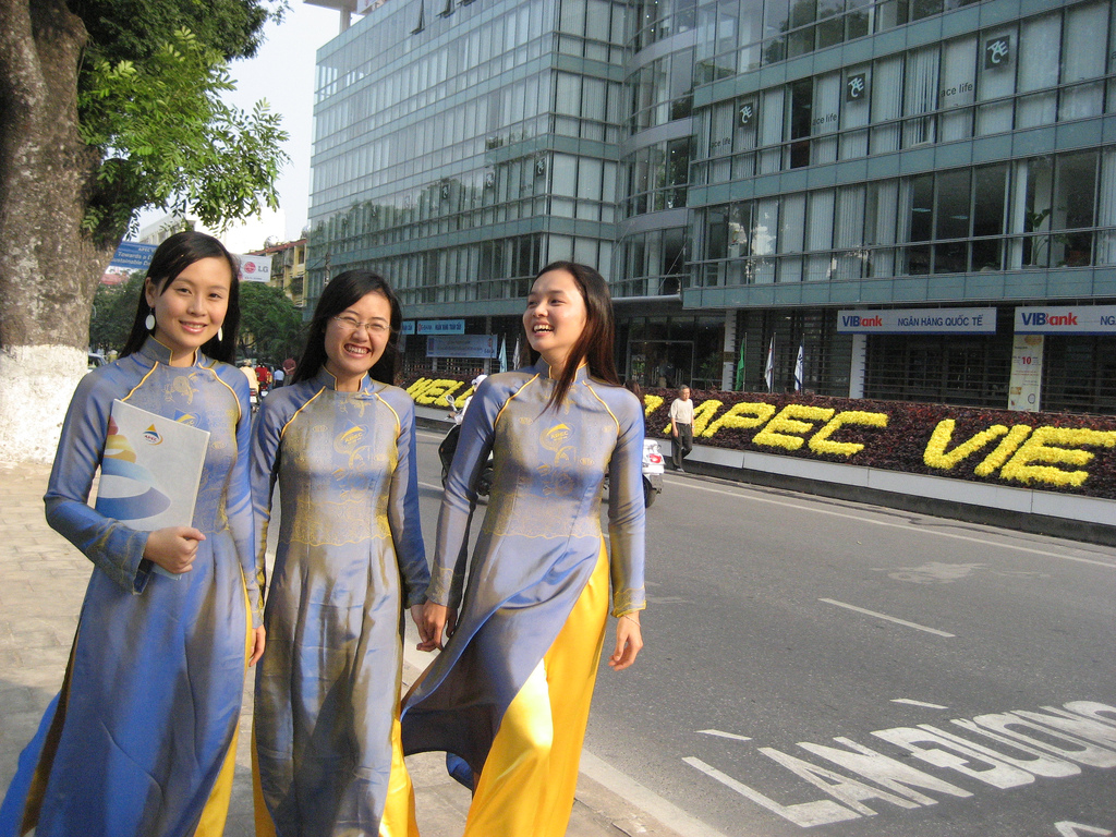 Young Vietnamese ladies in áo dài during the APEC 2006 event